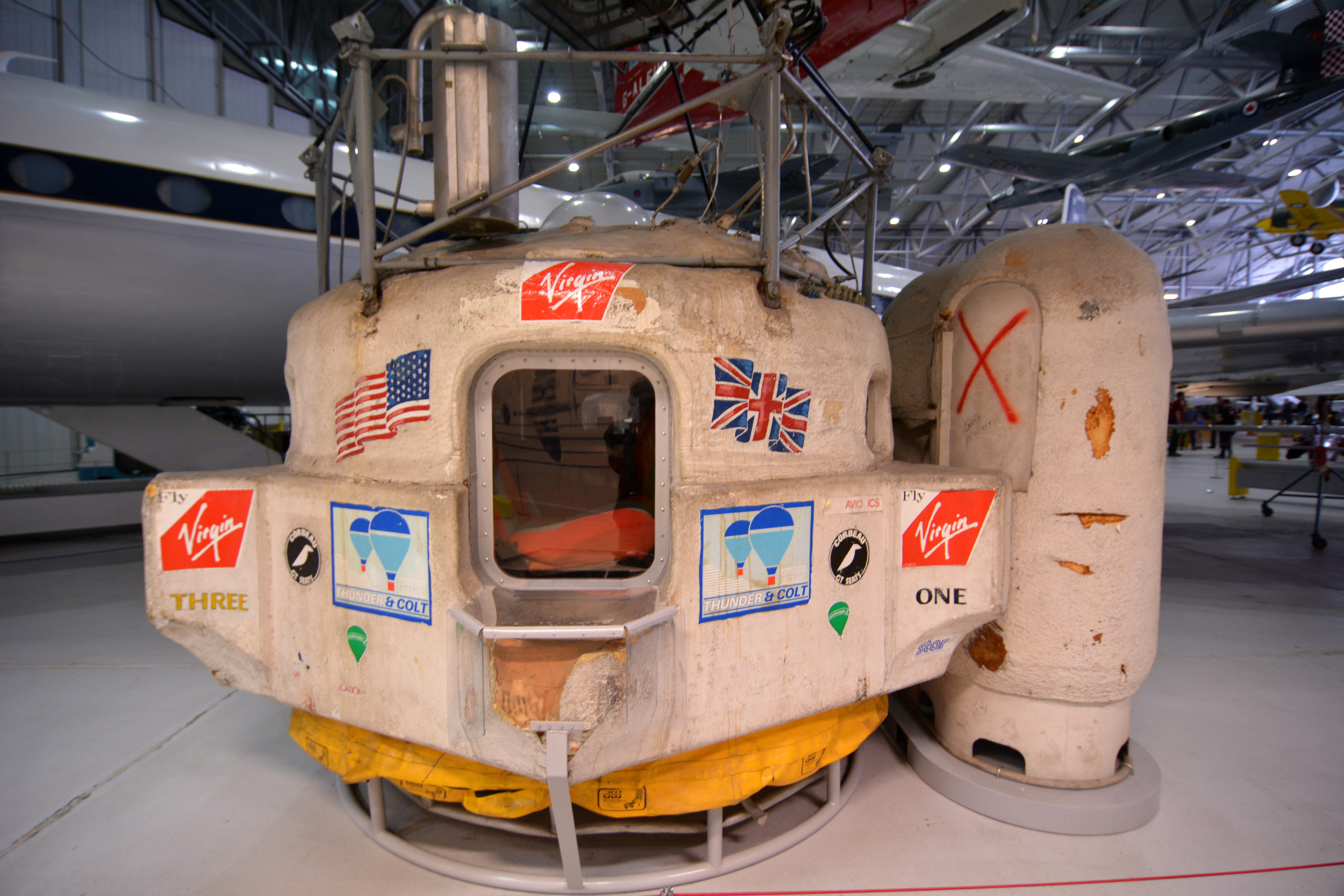 The capsule from the Virgin Atlantic Flyer balloon on display at the Imperial War Museum, Duxford, England. In 1987, Richard Branson & Per Lindstrand used it to become the first people to cross the Atlantic Ocean in a hot-air balloon.